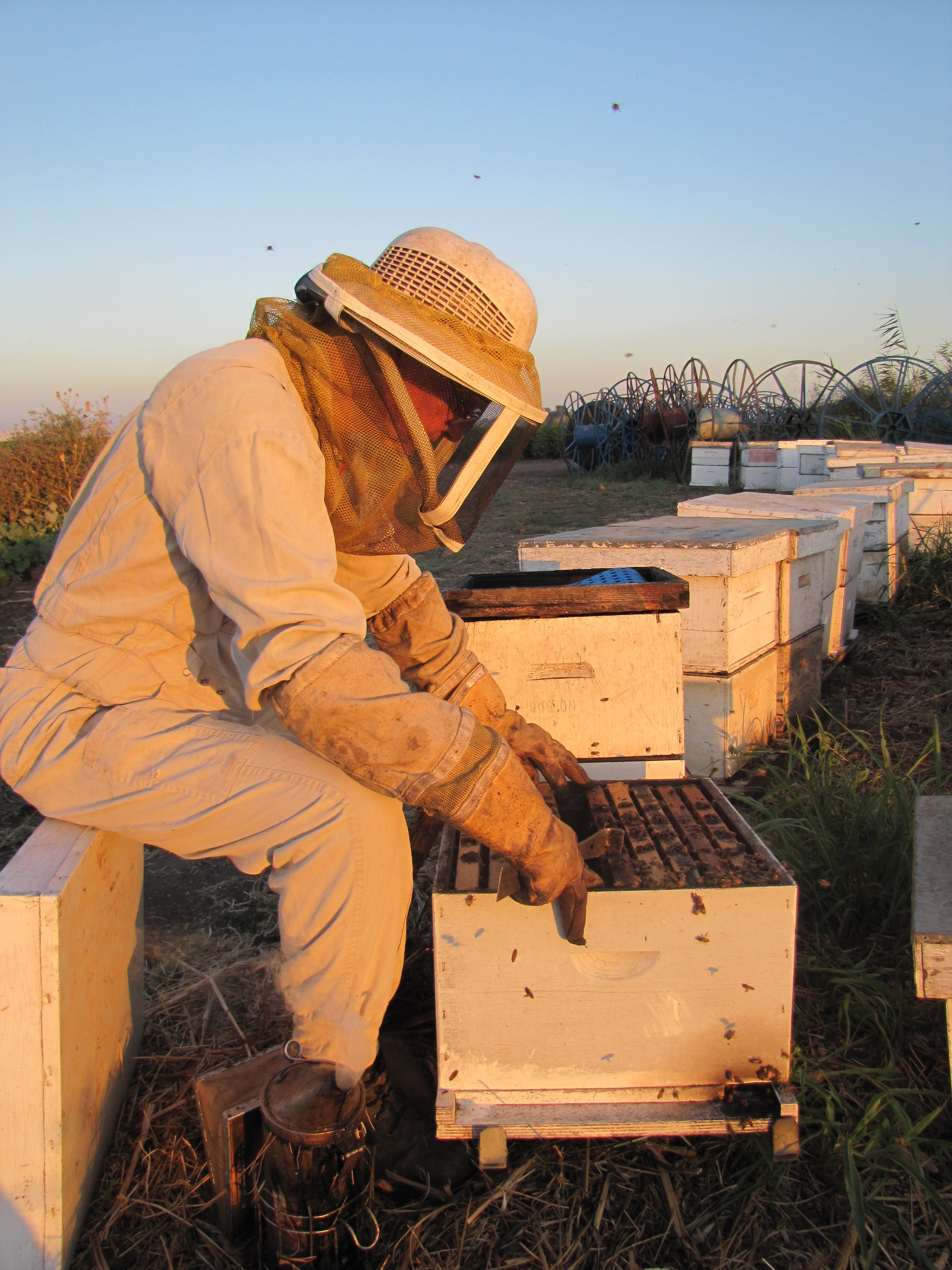 Yanai Sachs with the the hives